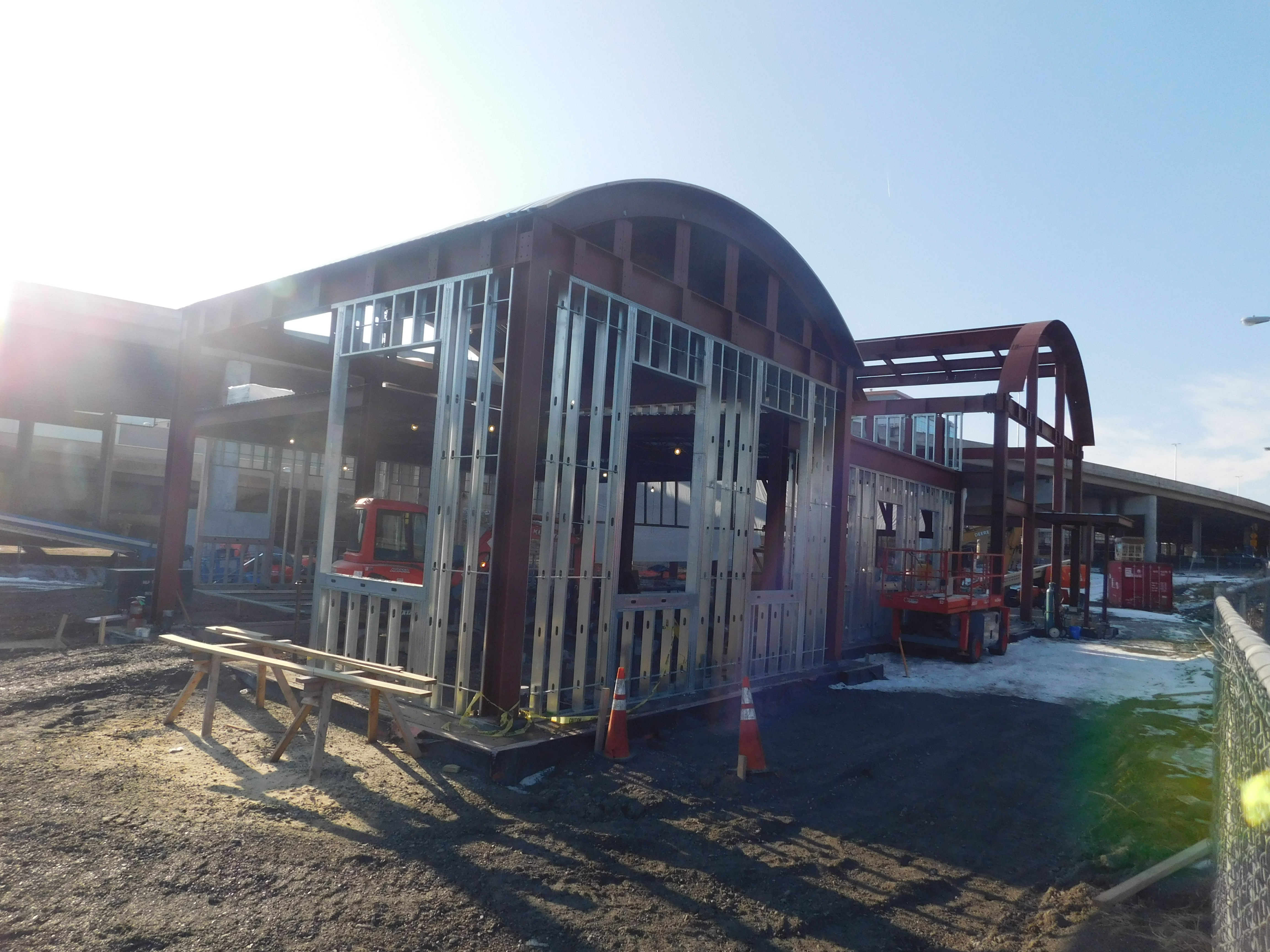 Buffalo Exchange Street's new station in December 2019.